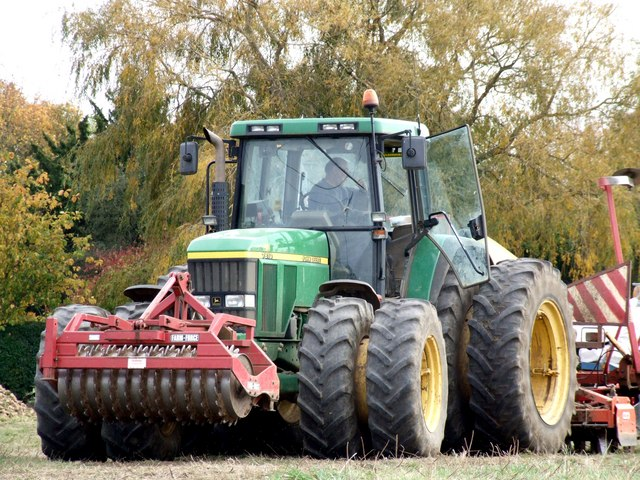 Tractor at Old Bolingbroke, Lincolnshire, Great Britain. Lunch break. The John Deere tractor is a 175hp 6 cylinder turbo diesel and with the power shift transmission, 19 forward and 7 reverse gears. The tank holds about 90 gallons of fuel, about £45s worth at today's prices. This model was built between 1997-2003. The outer tyres have seen more use.